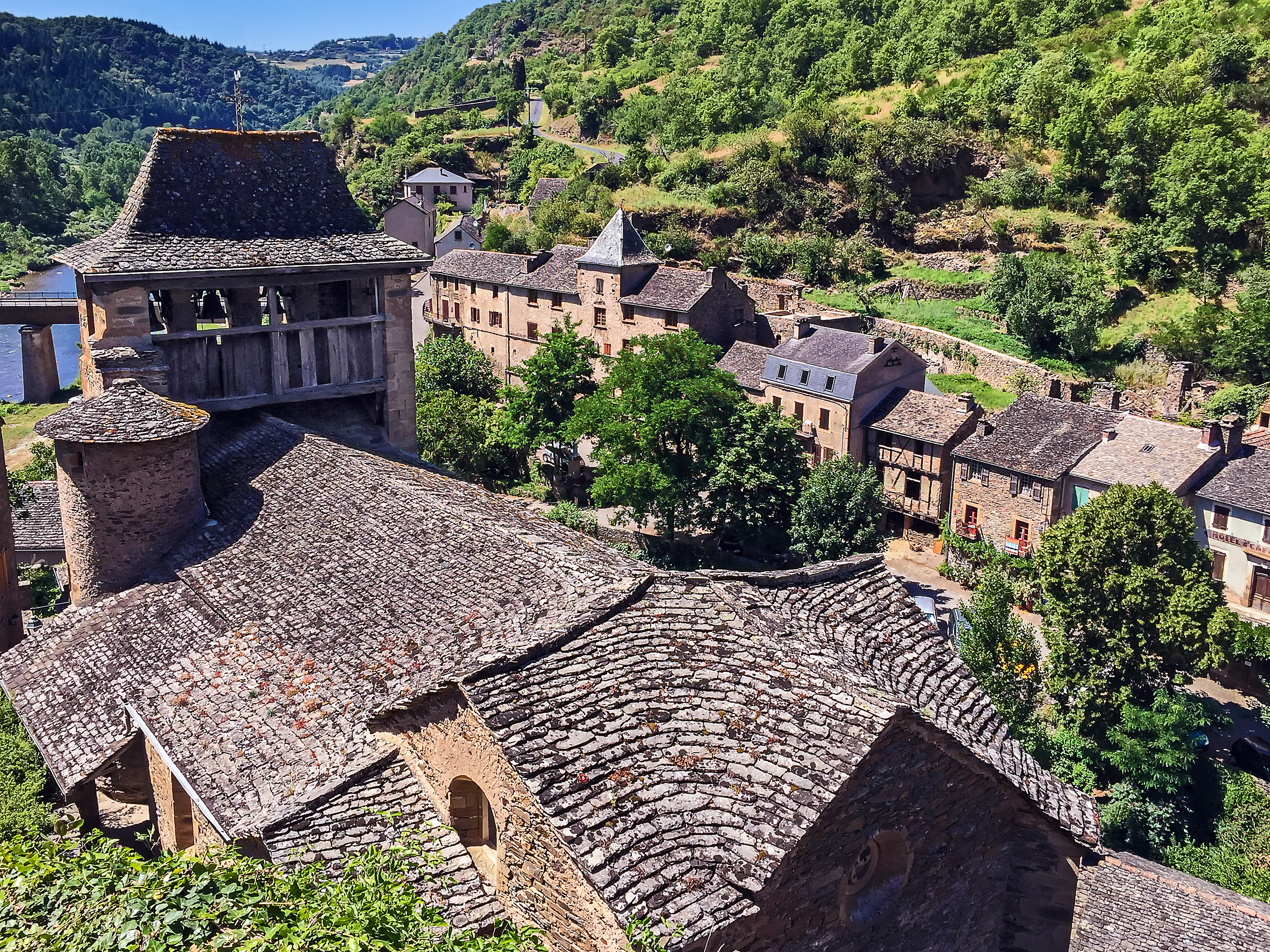 Brousse-le-Château. Church of James the Greater. Flagstone roof, and the bell tower.